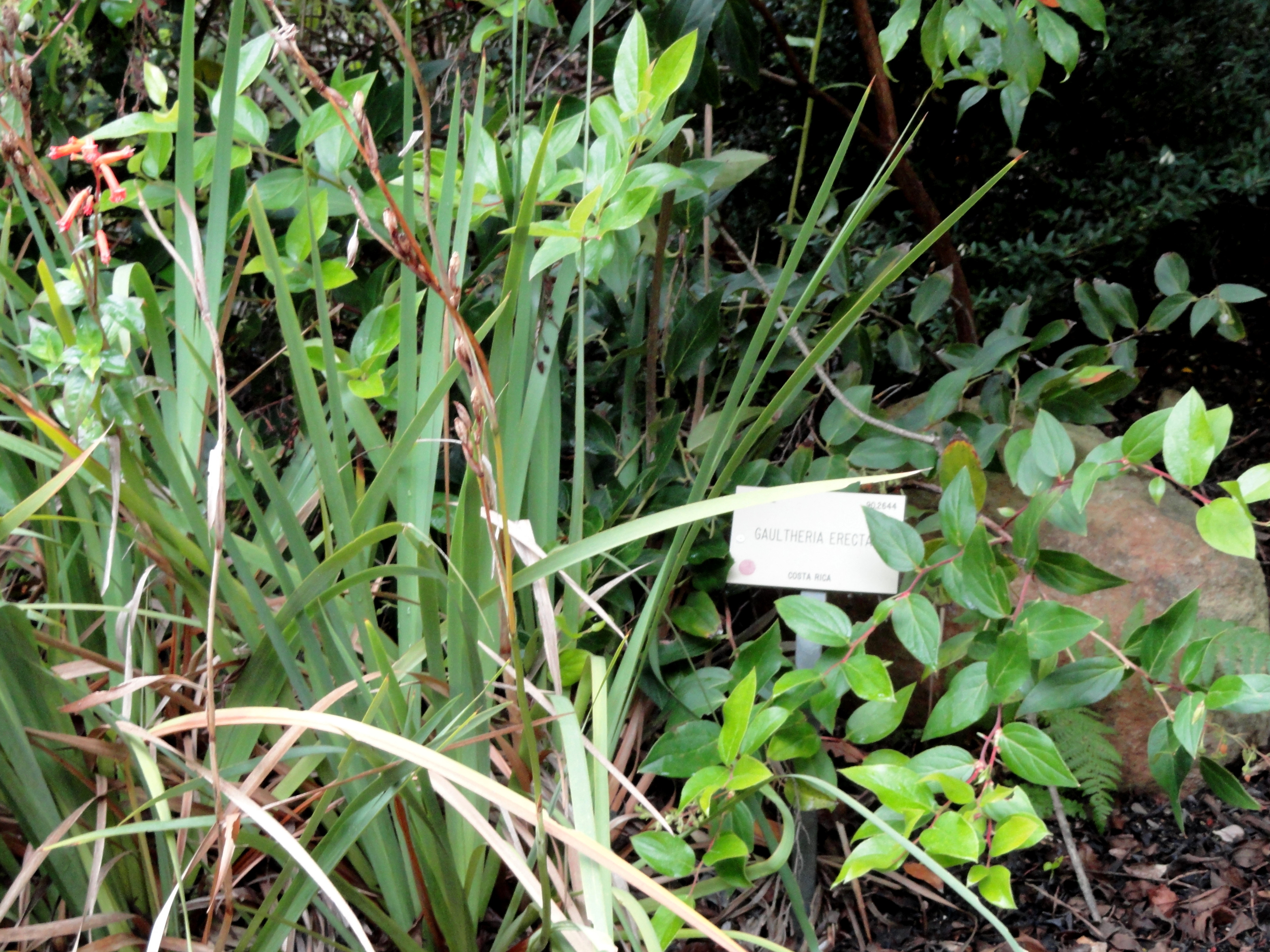 Gaultheria erecta specimen in the University of California Botanical Garden, Berkeley, California, USA.